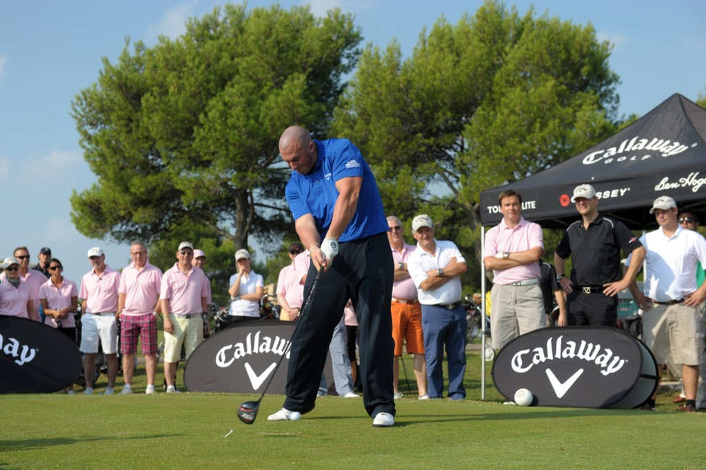 2010 Long Drive Champion Joe Miller